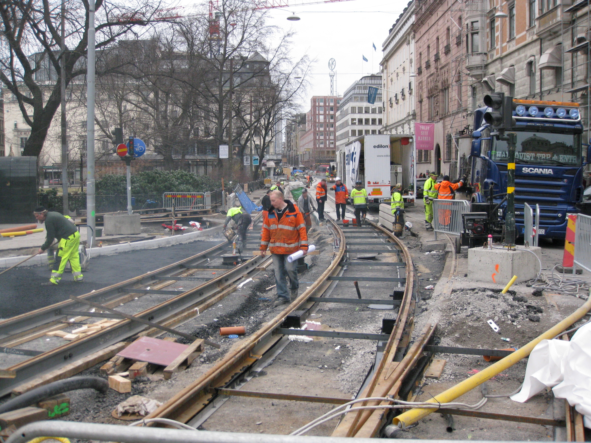 The tram-way Spårväg City under construction near Berzelii Park, Stockholm, Sweden.